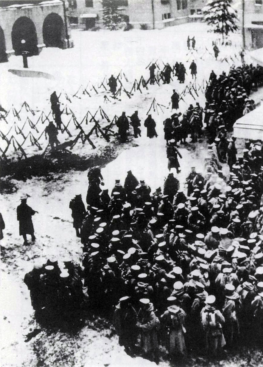 Rebel troops assembled at police headquarters.